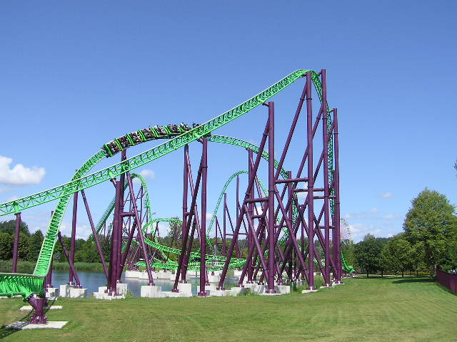 Roller coaster "Goliath" at Walibi World, Netherlands